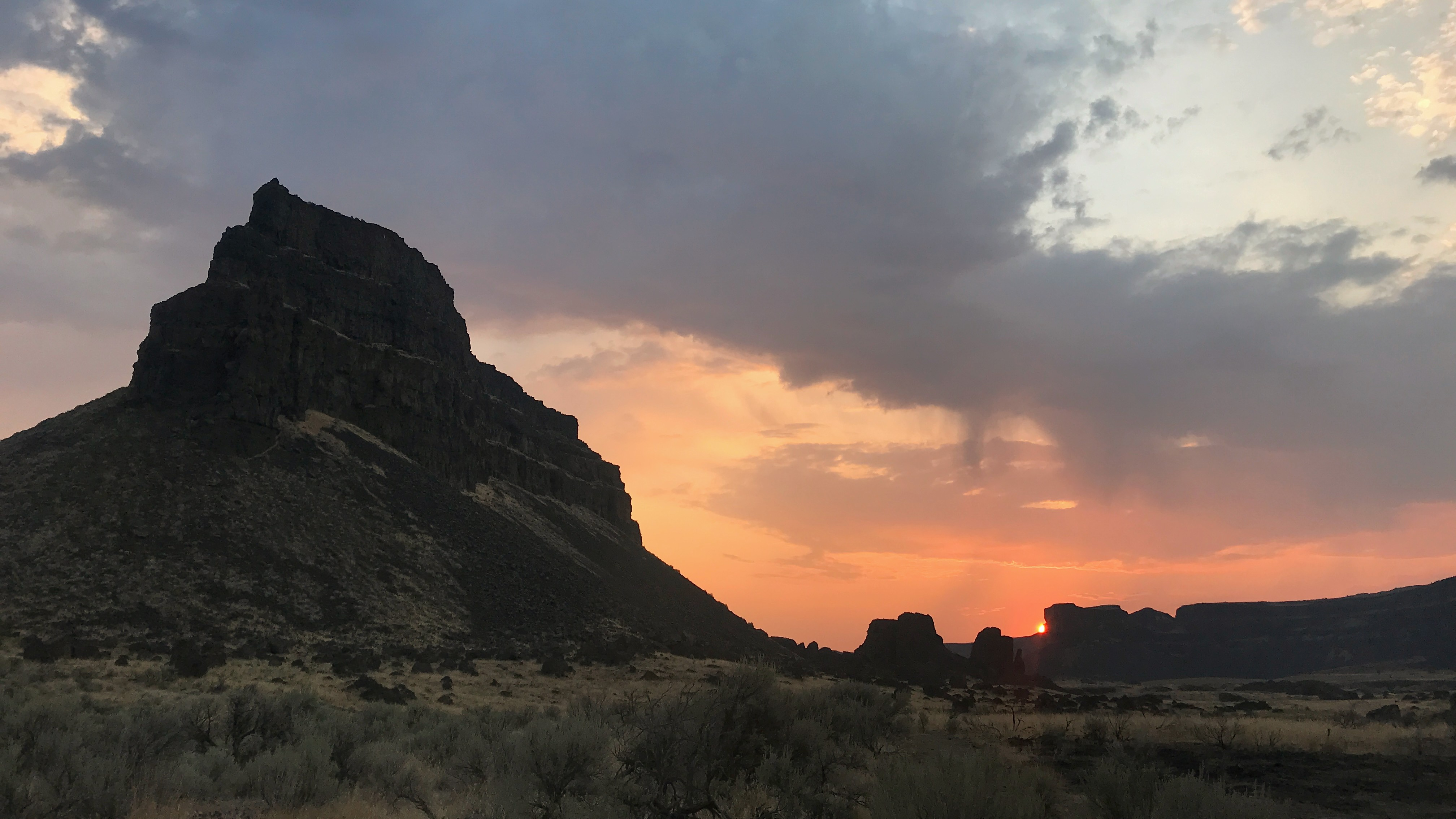 The sun rising over Dry Falls in the background with Umatilla Rock in the foreground.